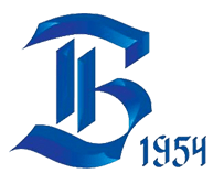 Logo of FC Baltyka